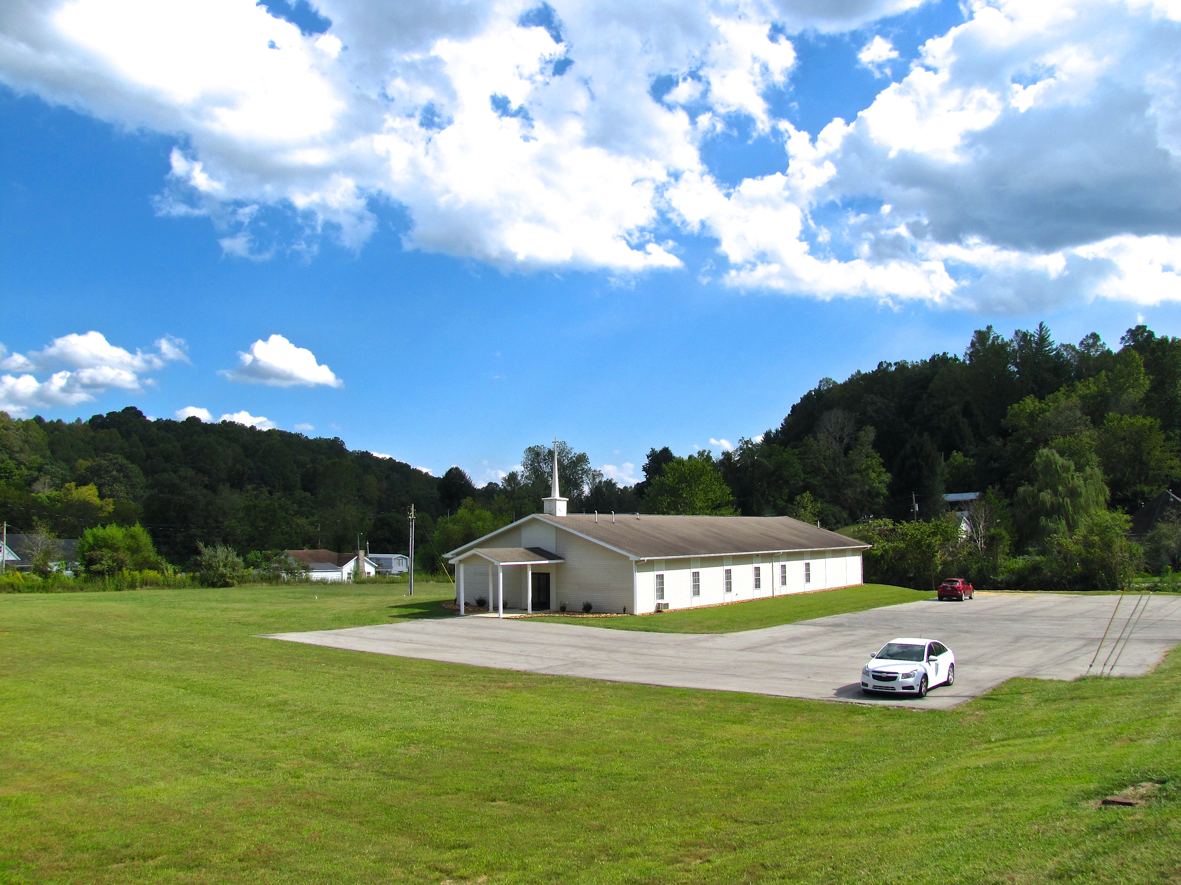 The Lancing community of Morgan County, Tennessee, United States, viewed from the intersection of State Route 62 and Pemberton Street.